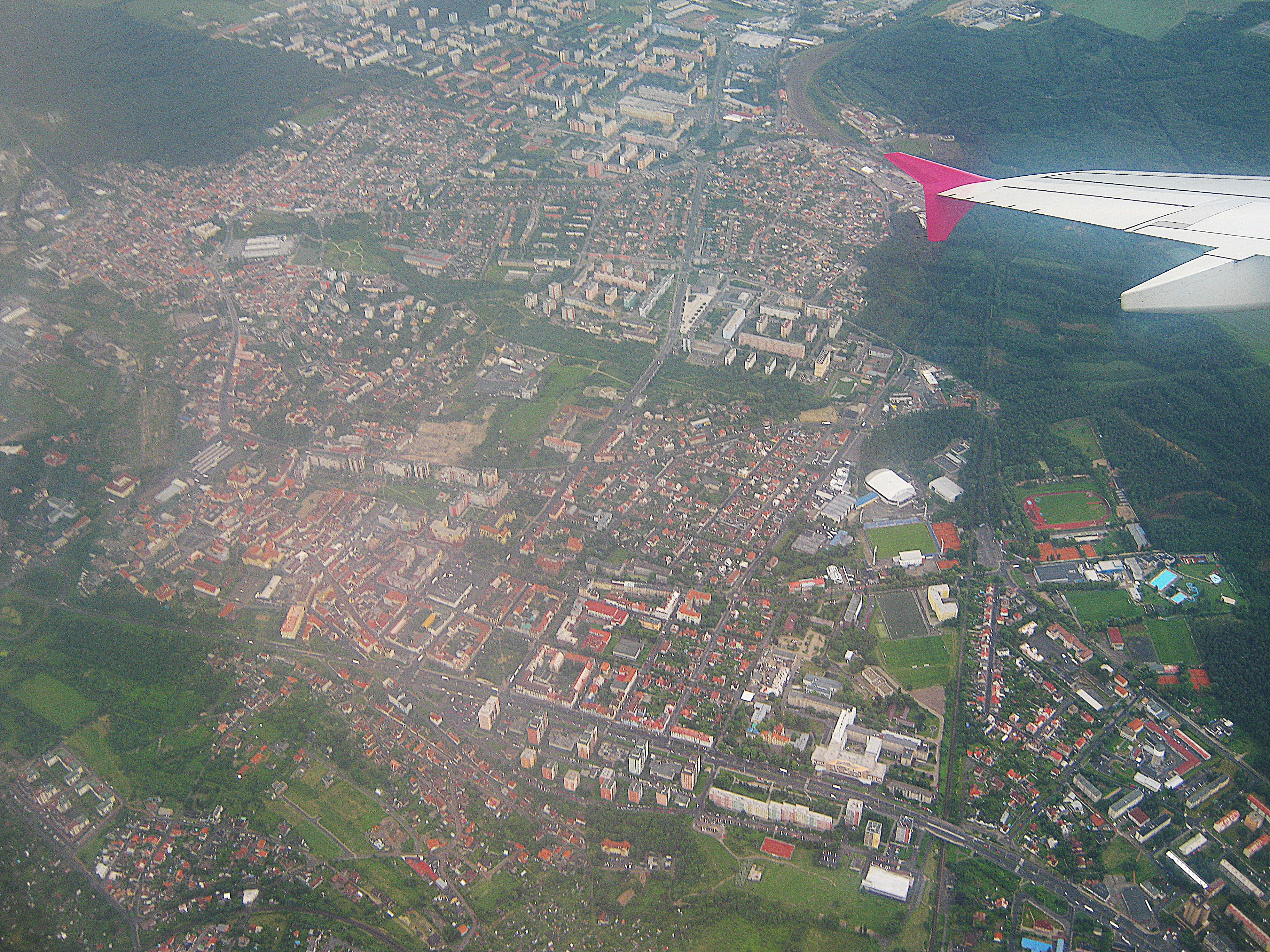 Aerial photography of a town in Central Bohemia